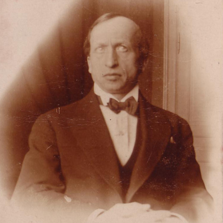 Grigoriy Kirdetsov: picture found in the family album. It's the only picture of him! It was taken sometime in Berlin in 1924.